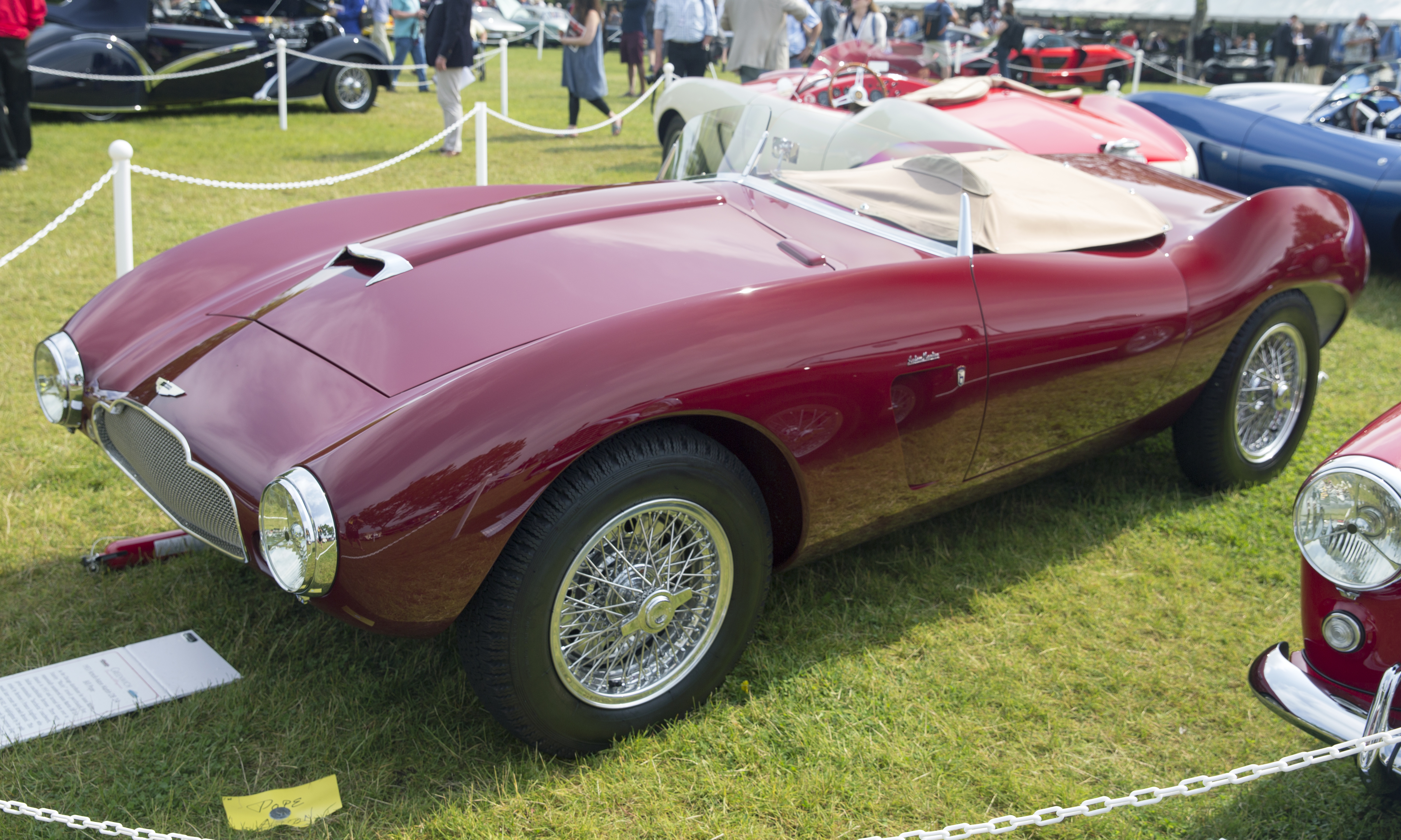 1953 Arnolt-Aston Martin DB2/4 Bertone Spyder (LML502) at the 2019 Greenwich Concours d'Elegance.